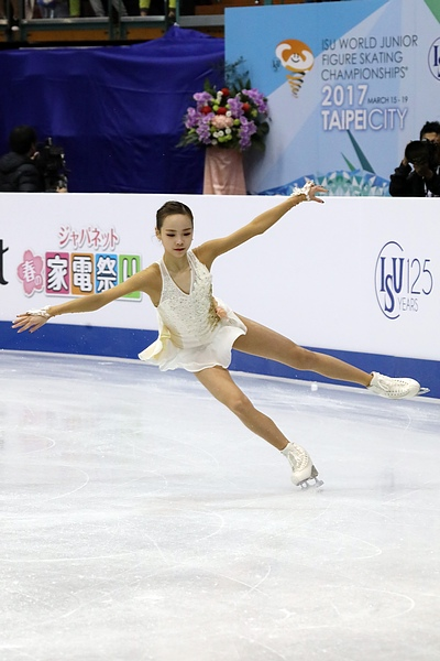 Photos – Junior World Championships 2017 – Ladies